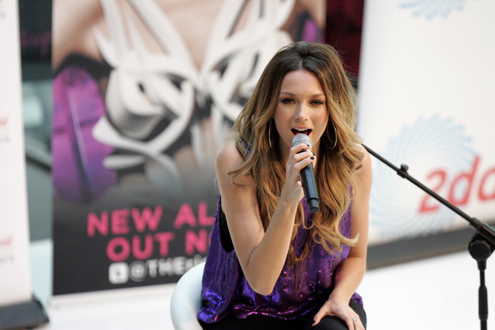 Ricki-Lee Coulter performing at Westfield Parramatta.